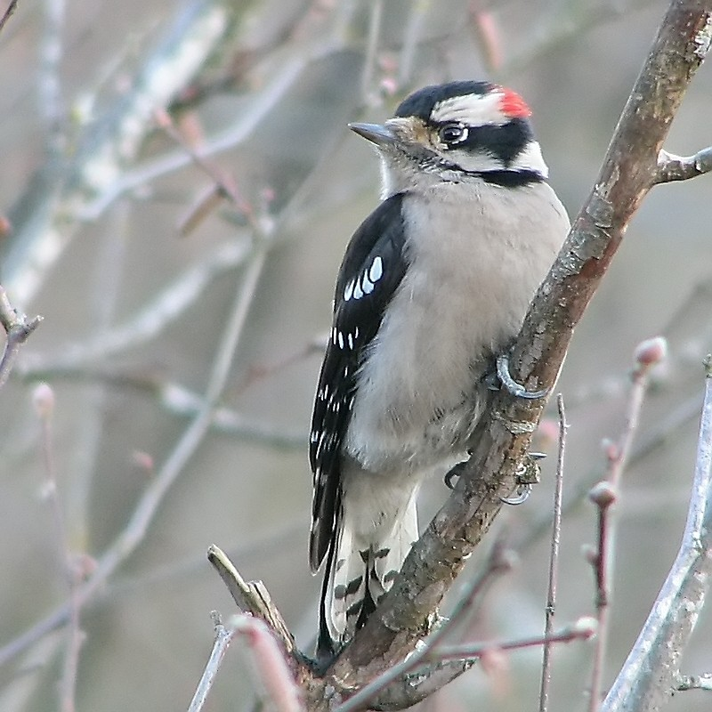 Downy Woodpecker (Picoides pubescens) - male perching on a branch.